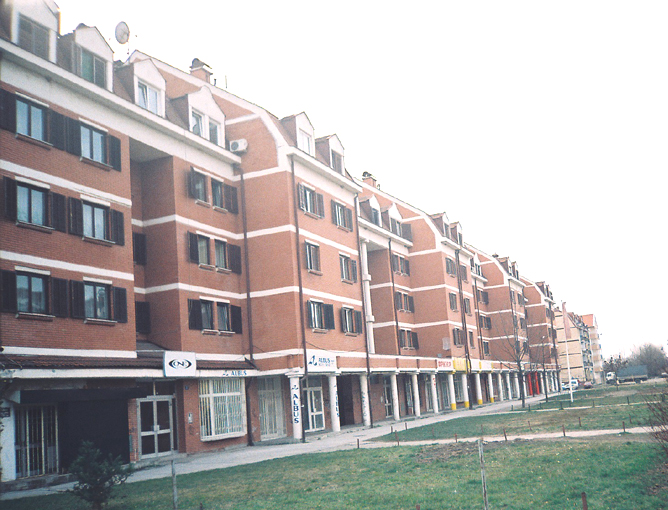 Image of Telep neighborhood in Novi Sad (self made)